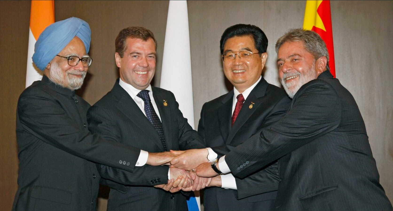 BRIC leaders